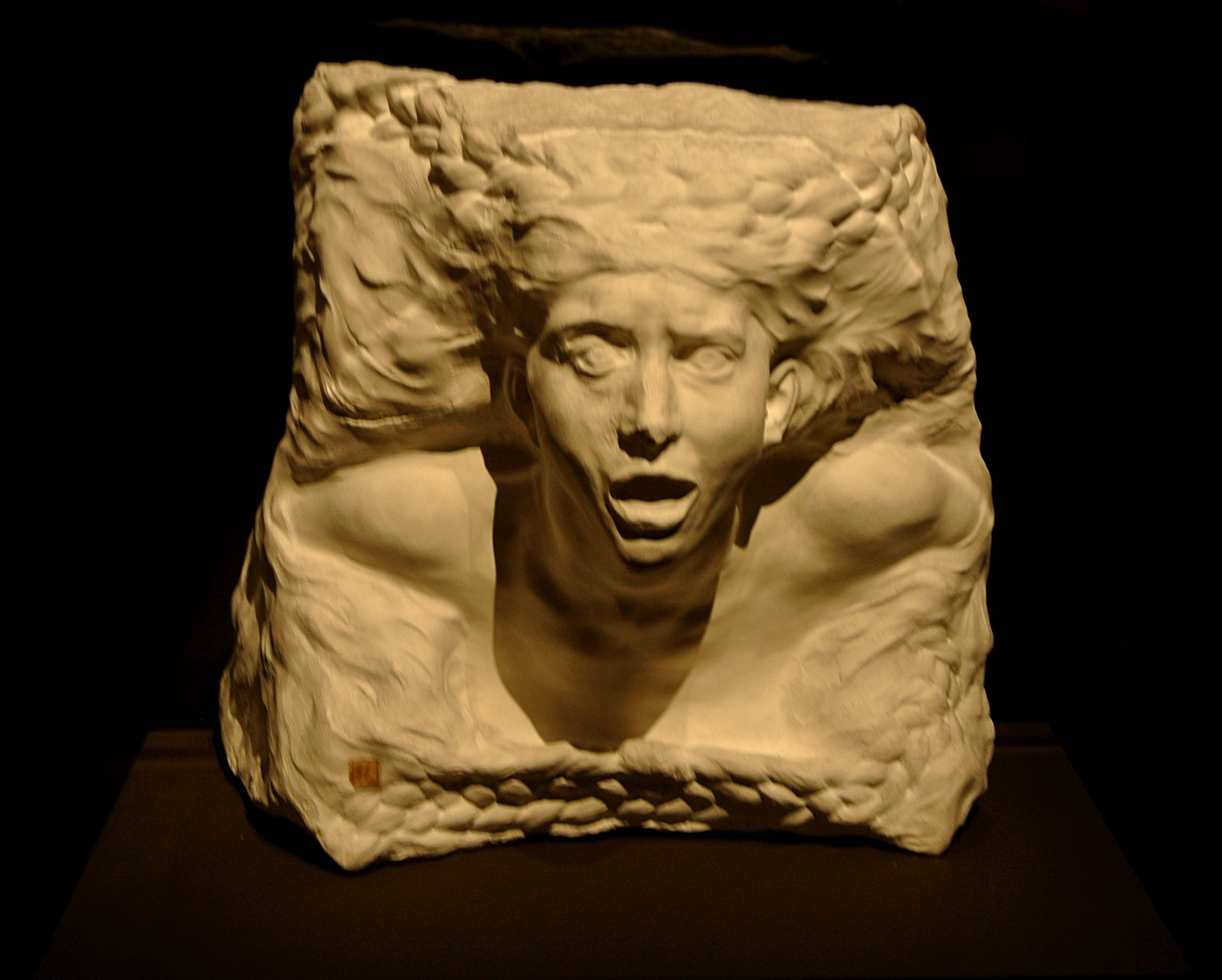 "The Storm", a sculpture of Auguste Rodin - 1898(?) Marble Dimensions : H : 44,3 cm ; L : 50,3 cm ; P : 29,3 cm Usually exposed at the Rodin Museum, exceptionally exposed at Orsay Museum - Paris, as a part of the exhibition "The angel of the odd. Dark Romanticism from Goya to Max Ernst"